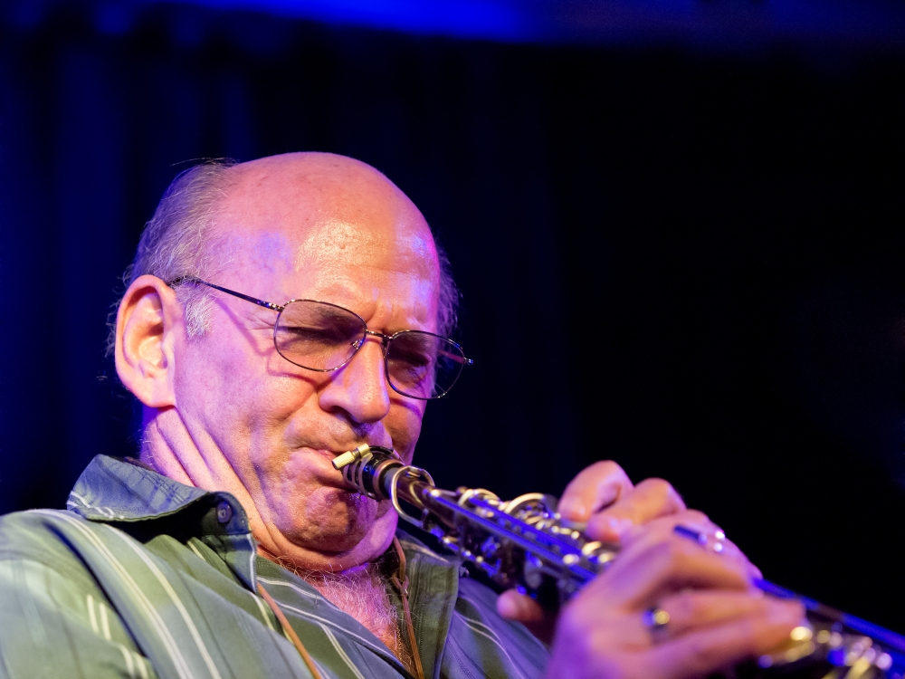 Dave Liebman, Jazz saxophonist; Picture taken in Jazz Club Unterfahrt, Munich/Bavaria